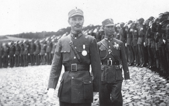 Chen Cheng with Chiang Kai Chek inspecting troops